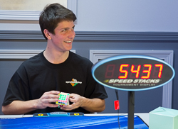 Feliks Zemdegs at the Australian National Rubik's cube competition in Canberra, September 2013 Feliks Zemdegs